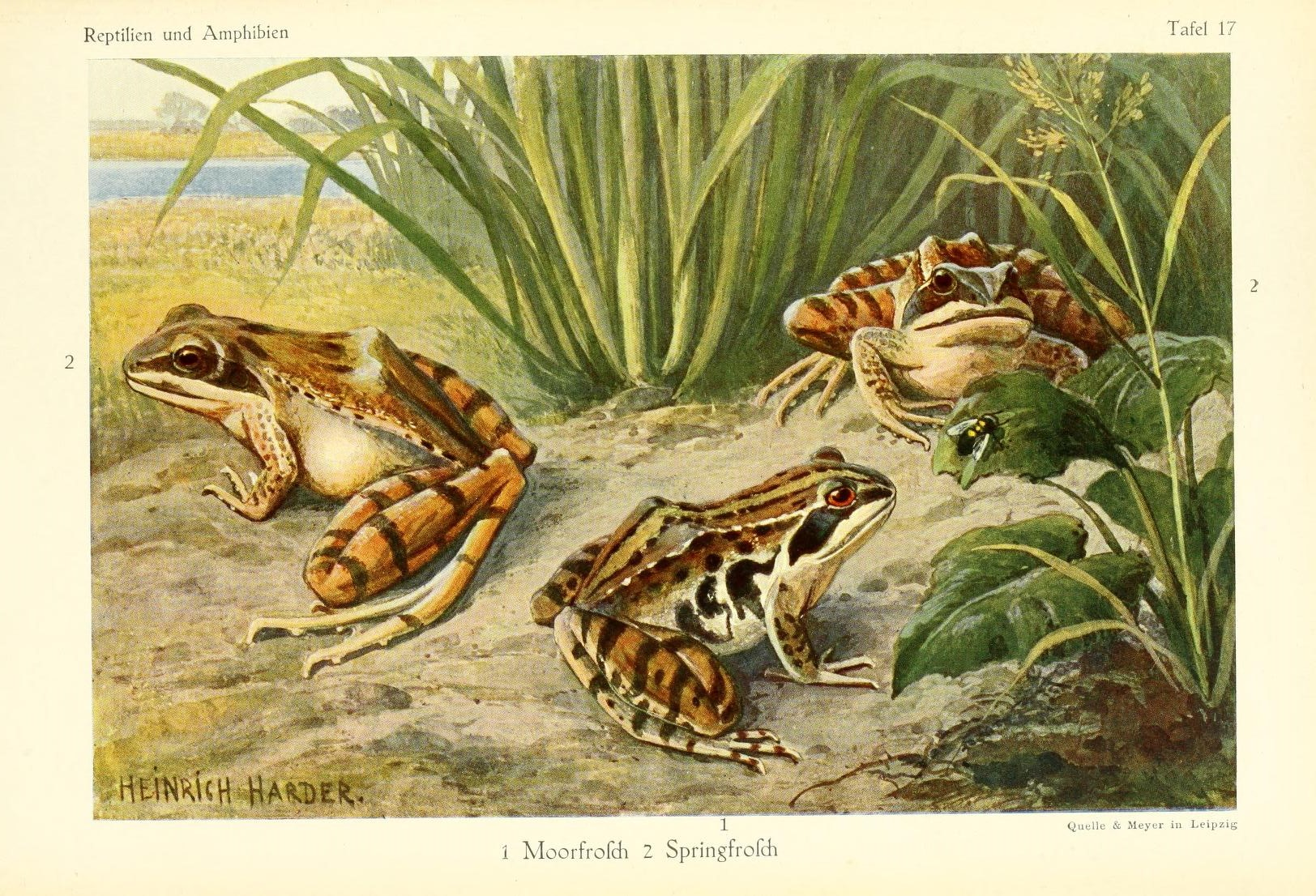 Richard Sternfeld Die Reptilien und Amphibien mitteleuropas Leipzig, Quelle & Meyer, 1912. In German 80 pages illustrated with 30 coloured plates. 1 Rana arvalis Nilsson, 1842 2 Rana dalmatina Fitzinger, 1839